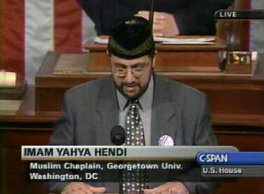 Imam Yahya Hendi (Georgetown University Muslim Chaplain) delivers a prayer as guest chaplain for the U.S. House of Representatives, Nov 15, 2001.